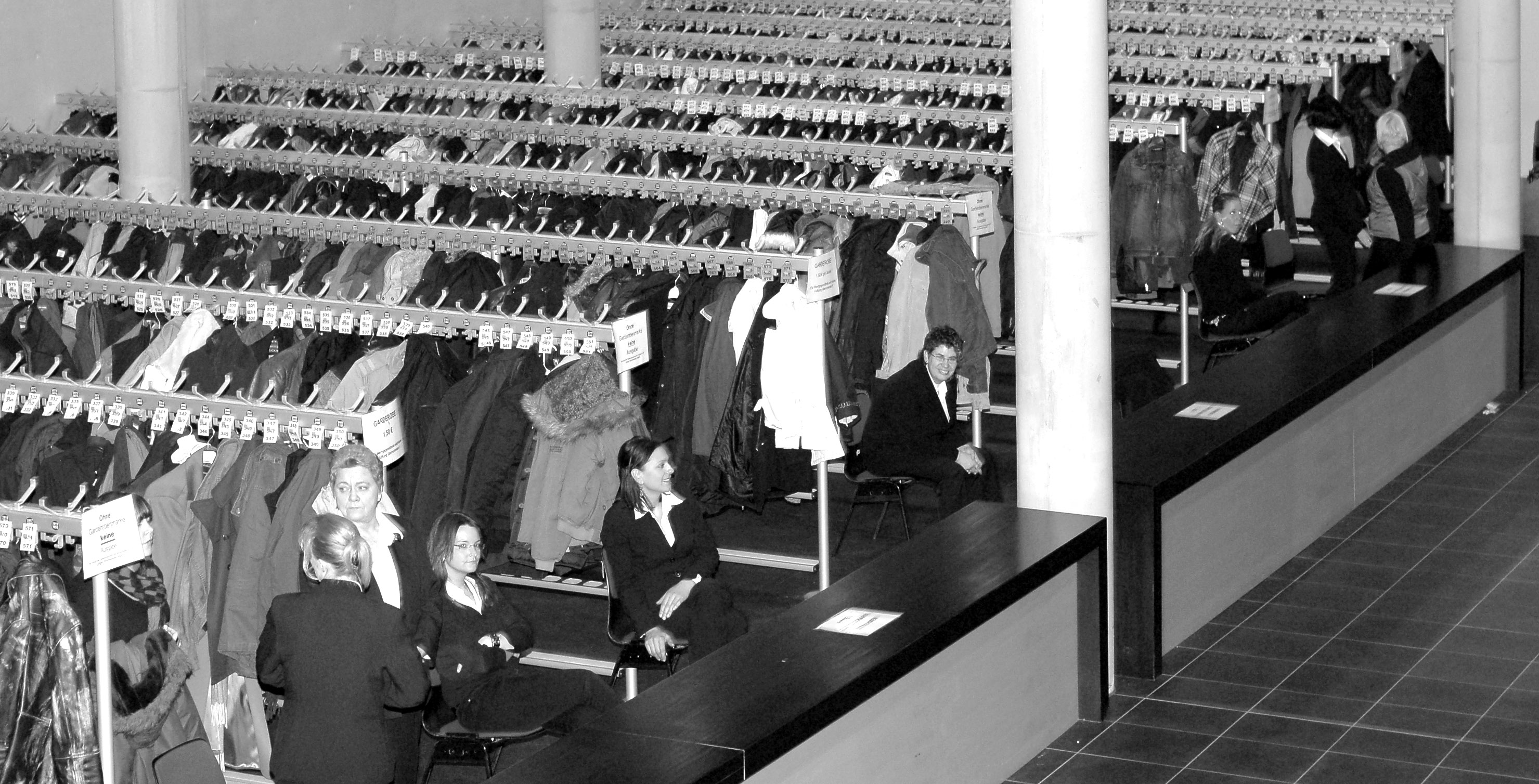 The cloakroom of the Hans-Martin Schleyer Hall in Stuttgart during the six days on January 19th, 2008